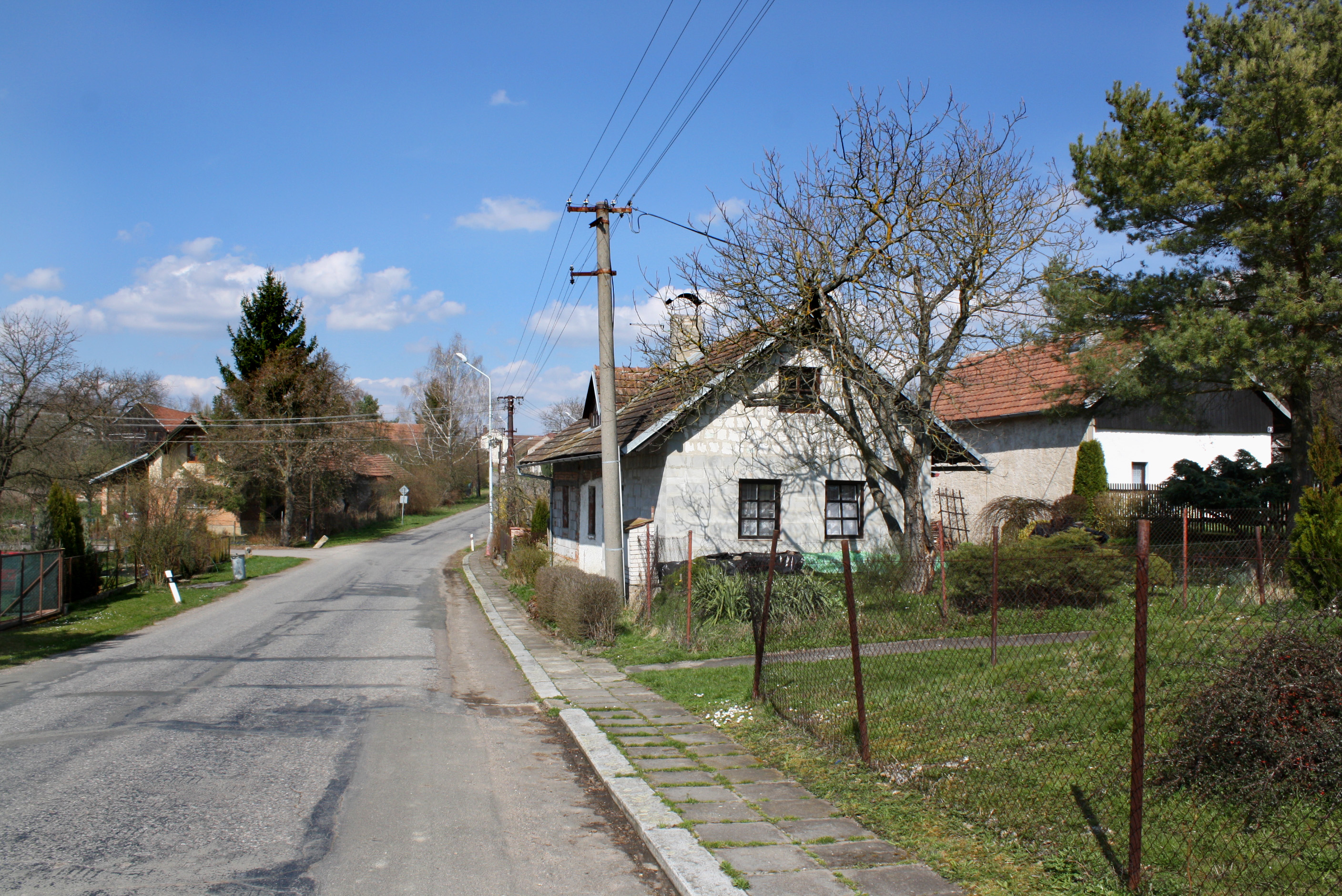 North part of Osek, part of Kněžice village, Czech Republic